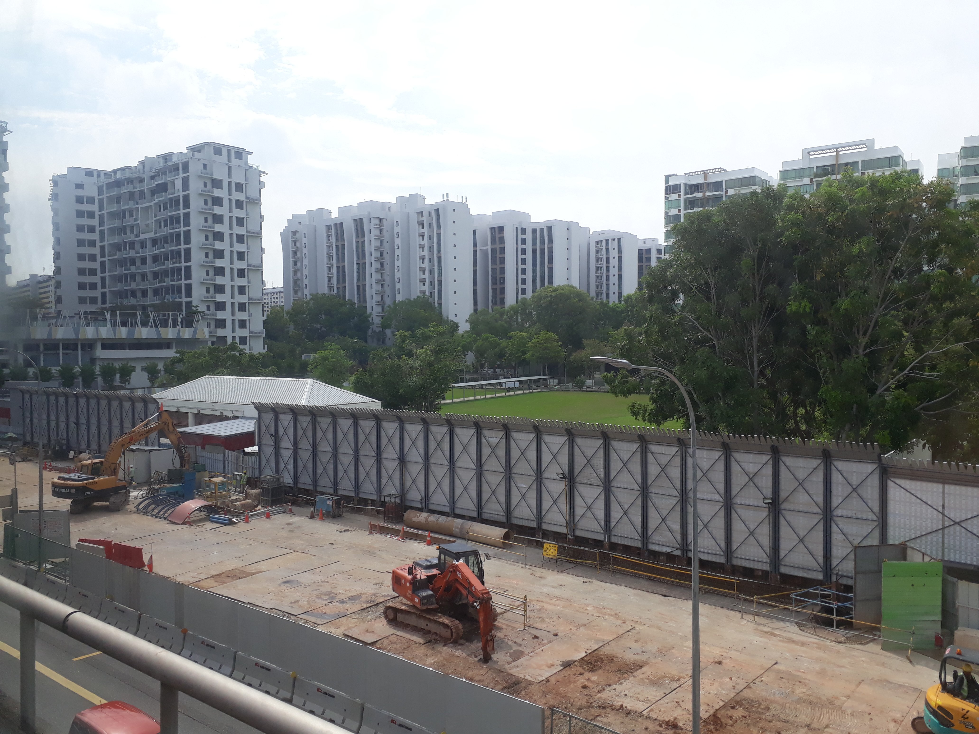 Tanah Merah